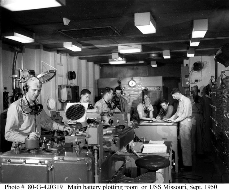 Navy photo of USS Missouri's Main Battery Plotting Room